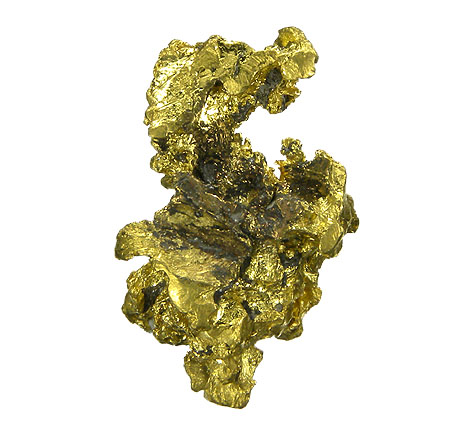 Gold Locality: Eureka Mine (Eureka & Mississippi Mine; Mississippi Mine), Big Oak Flat, Tuolumne County, California, USA (Locality at ) Size: 1.8 x 1.1 x 0.8 cm. A lovely crystalline native Gold specimen from what might possibly be the most famous Gold mining district in the United States. This piece has a very distinctive shape as it looks just like a tiny seahorse. It has great color, form and visual appeal. A lovely thumbnail Gold specimen from this historic part of California.